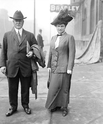 Mr. & Mrs. Carter Harrison on a sidewalk near the Bradley (presumably the Bradley Hotel which was located on the northwest corner of North Rush Street and East Grand Avenue)